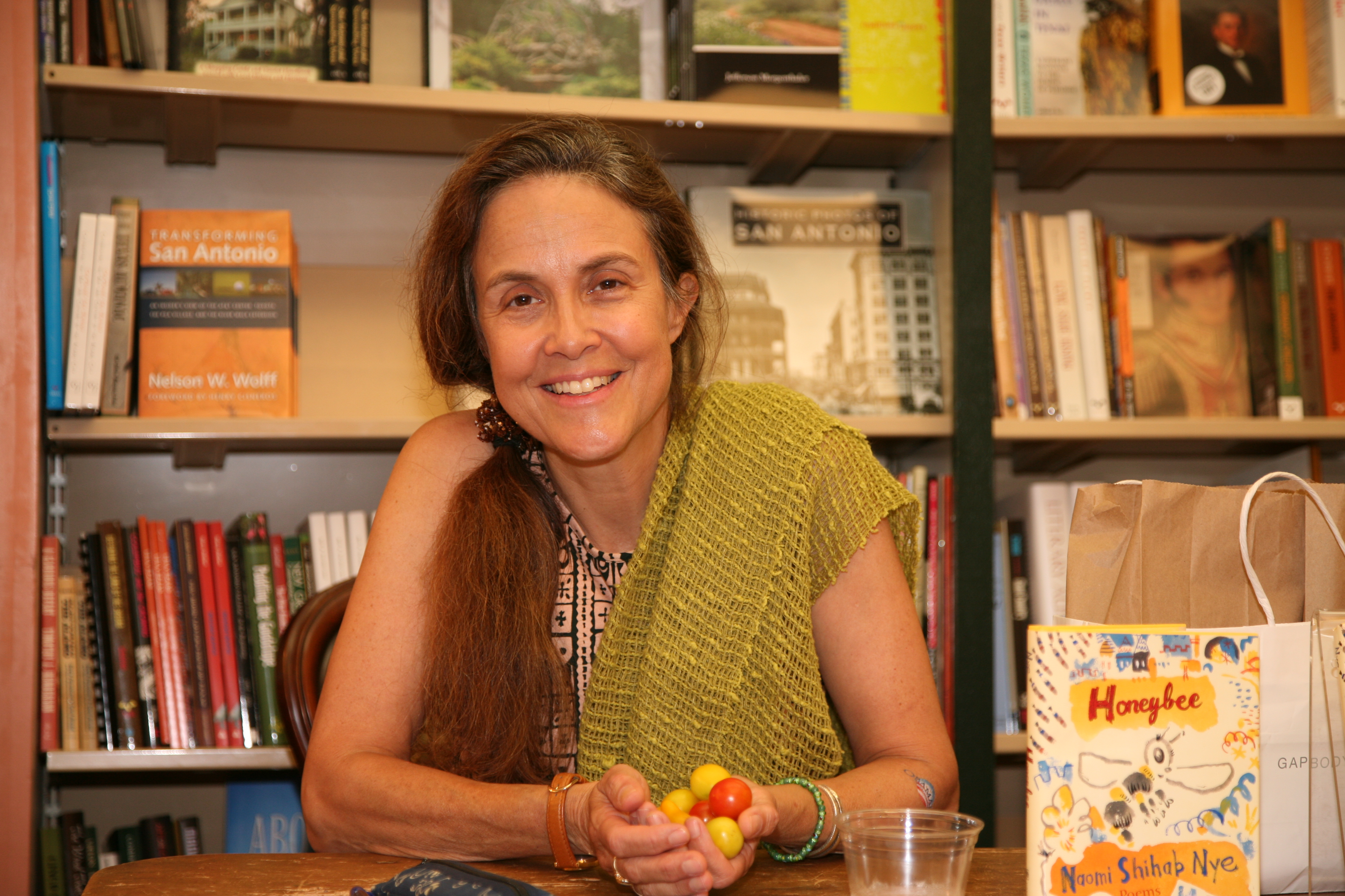 This photograph is of International Poet Naomi Shihab Nye at a book signing. Naomi Shihab Nye and Suzanne Crowley authors of Honeybee and The Very Ordered Existence of Merilee Marvelous respectively gave a short meet and greet signing at The Twig Book Shop located at 5005 Broadway, San Antonio, TX 78209 on June 12, 2008. Naomi Nye's Honeybee is a book of poetry for young readers, and Suzanne Crowley's Very Ordered Existence is a novel featuring Merilee Monroe. Naomi Nye is holding a sampling of her gift of fresh picked tomatoes from a personal friend.